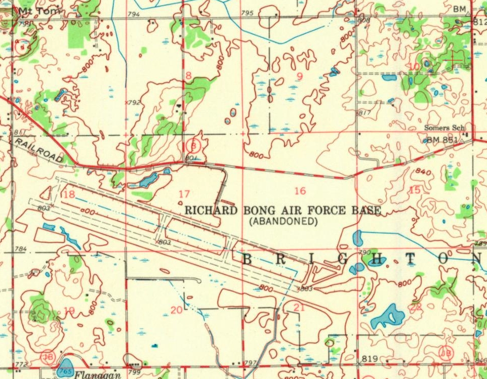 Topographical map depicting Brighton township after it was altered by the aborted Bong Air Force Base project. U.S. Geological Survey 1:24000 Topographical Quadrangle Map Reston, VA 1962